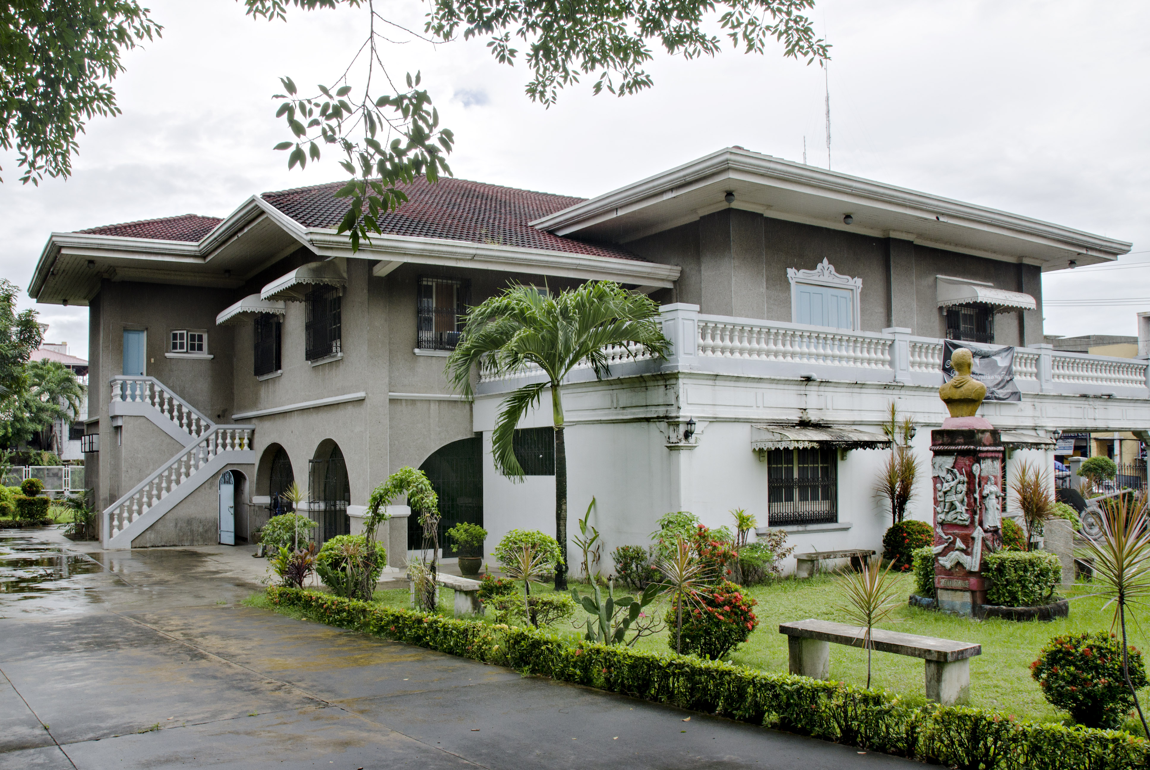 Casa Real was built in the 1580 and served as the office of Governor of Malolos.